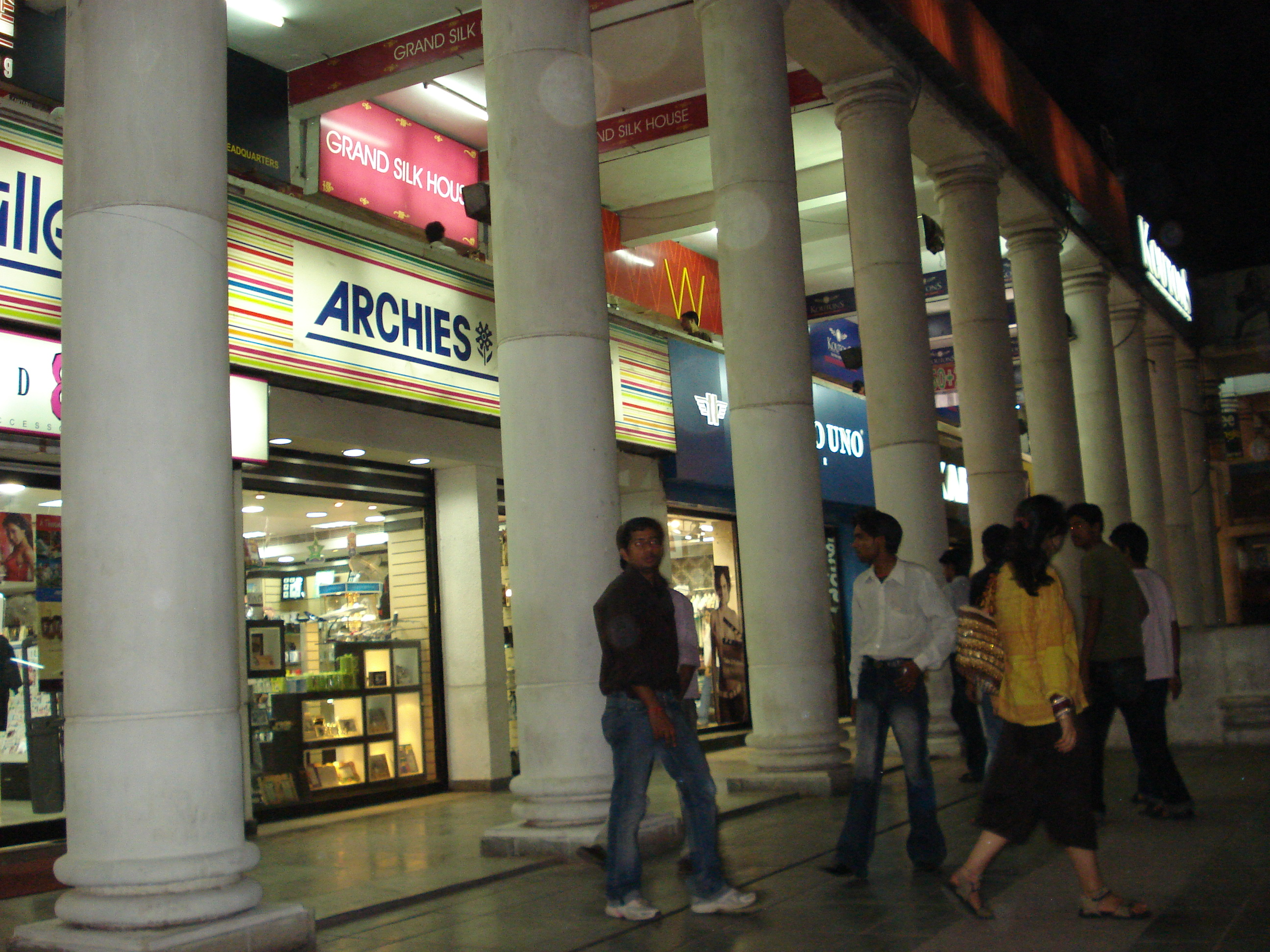 District Centre, Janakpuri